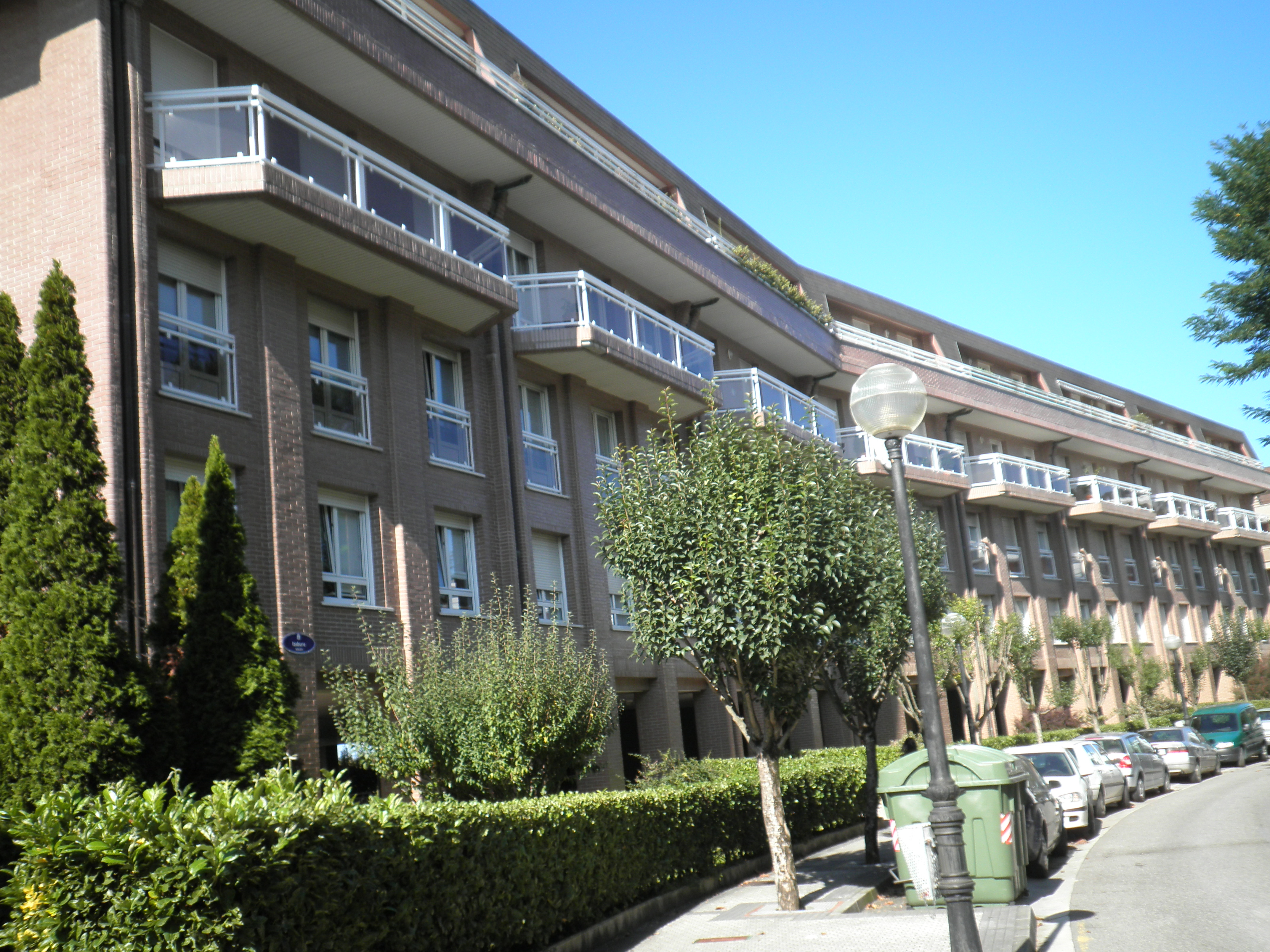 Houses in Izaburu street, Donostia.